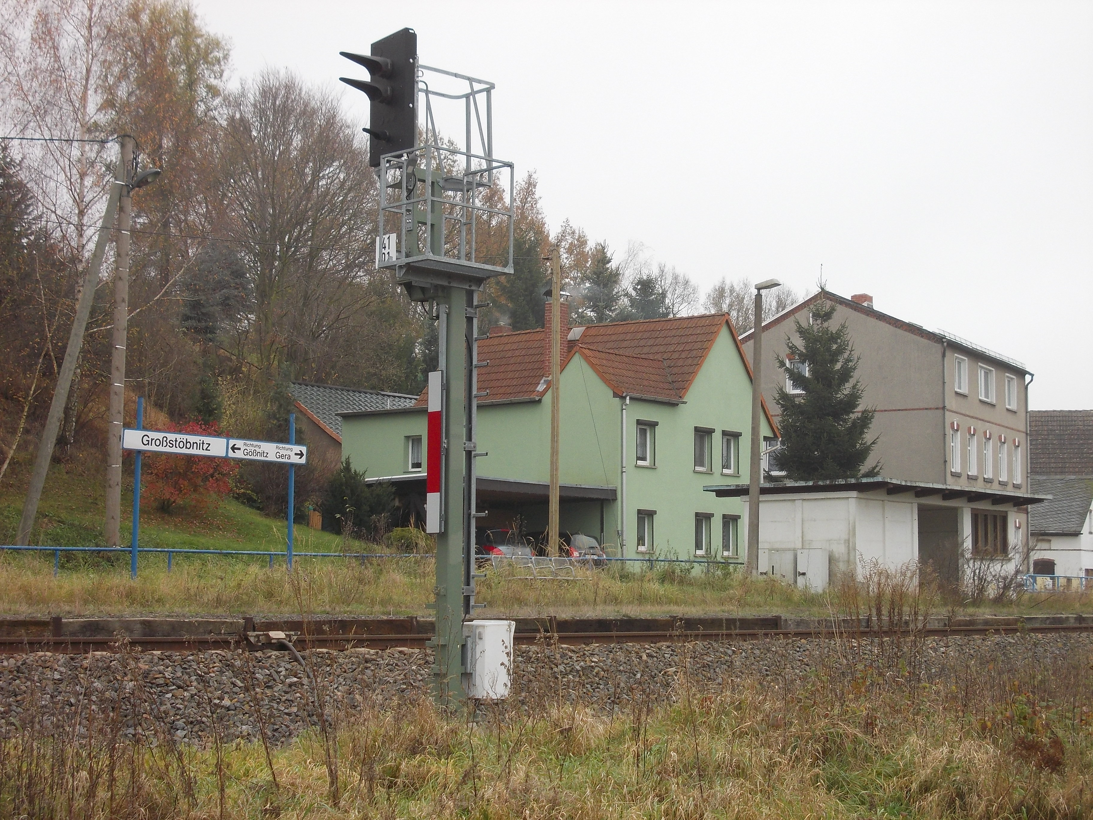 Grossstöbnitz train station (Schmölln, Altenburger Land district, Thuringia)